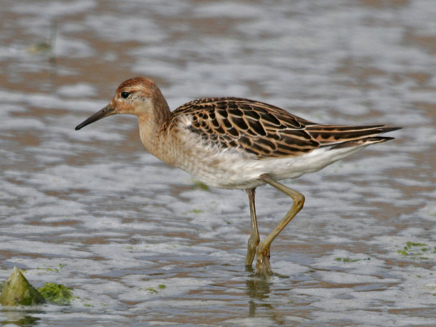 Ruff, at Morro Strand State Beach Campground lagoon, Morro Bay, CA